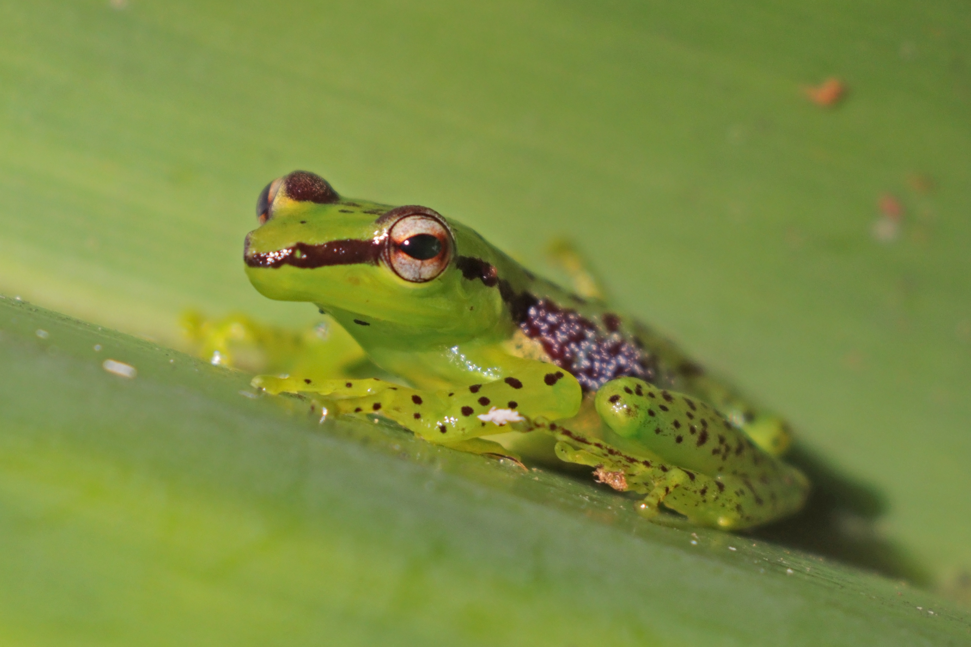 Pandanus frog (Guibemantis pulcher), Ranomafana National Park, Madagascar